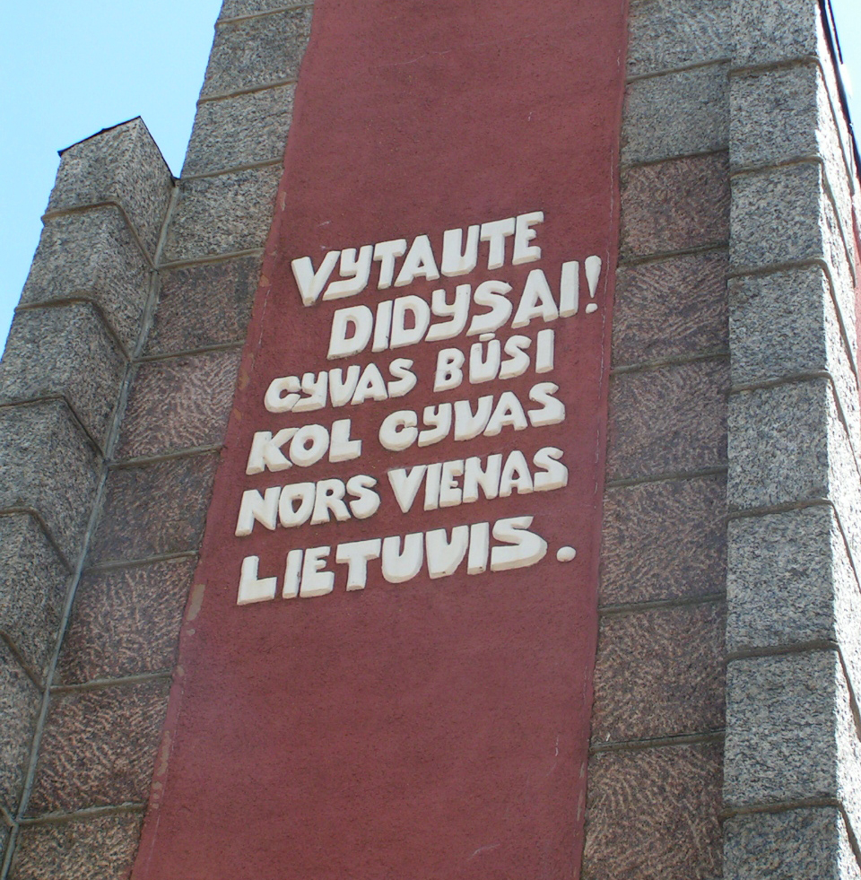 A monument to Vytautas the Great, the Grand Duke of Lithuania, in Perloja. The text says: "Vytautas the Great! As long as a single Lithuanian is alive, you will too be alive."